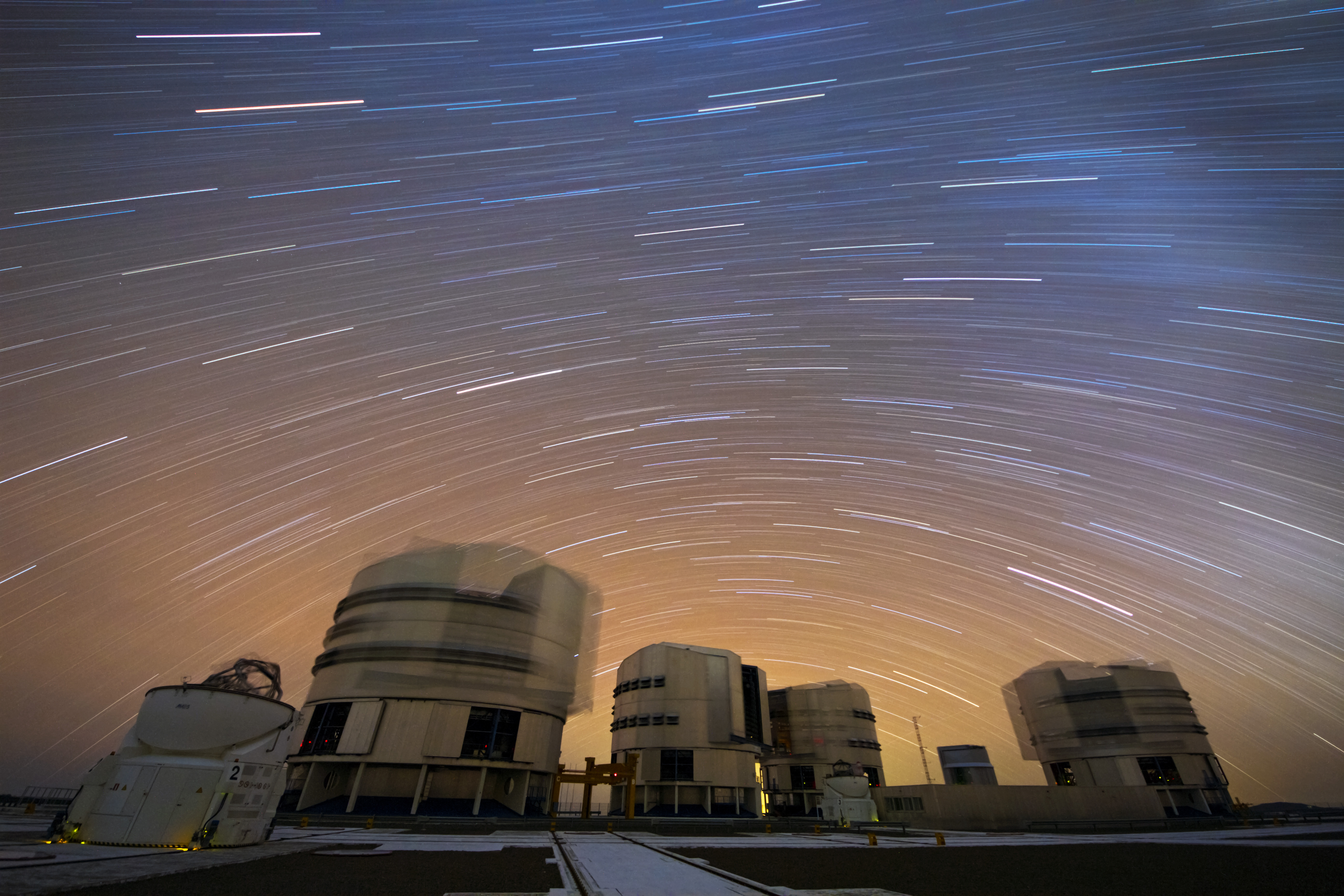 The sky over Paranal Observatory in northern Chile is a real treat for ESO's Photo Ambassadors, who are constantly experimenting with new techniques to obtain even more striking views of the unique, arid landscape and state-of-the-art facilities. On this occasion, Gianluca Lombardi has combined many long-exposure images to get this stunning result — the Very Large Telescope (VLT) and its Auxiliary Telescopes, their motion appearing as blurred flickers beneath a stream of stars, while the apparent motion of the stars across the sky has left smeared trails that are captured on camera as the Earth rotates. The VLT is ESO's flagship facility. It is of the most productive telescopes in the world, and the most advanced optical instrument ever made.